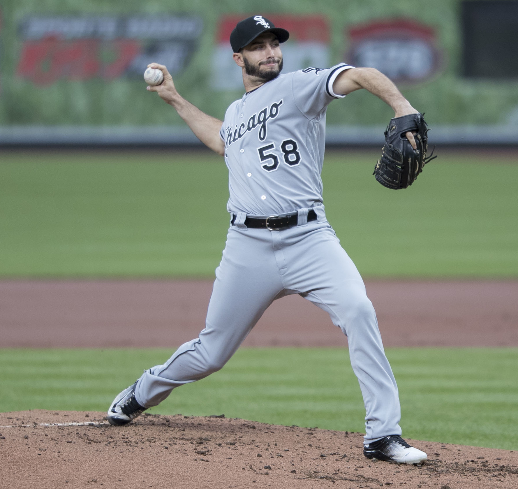 Miguel Gonzalez of the Chicago White Sox pitches in a game against the Baltimore Orioles at Oriole Park at Camden Yards on May 5, 2017 in Baltimore, Maryland.